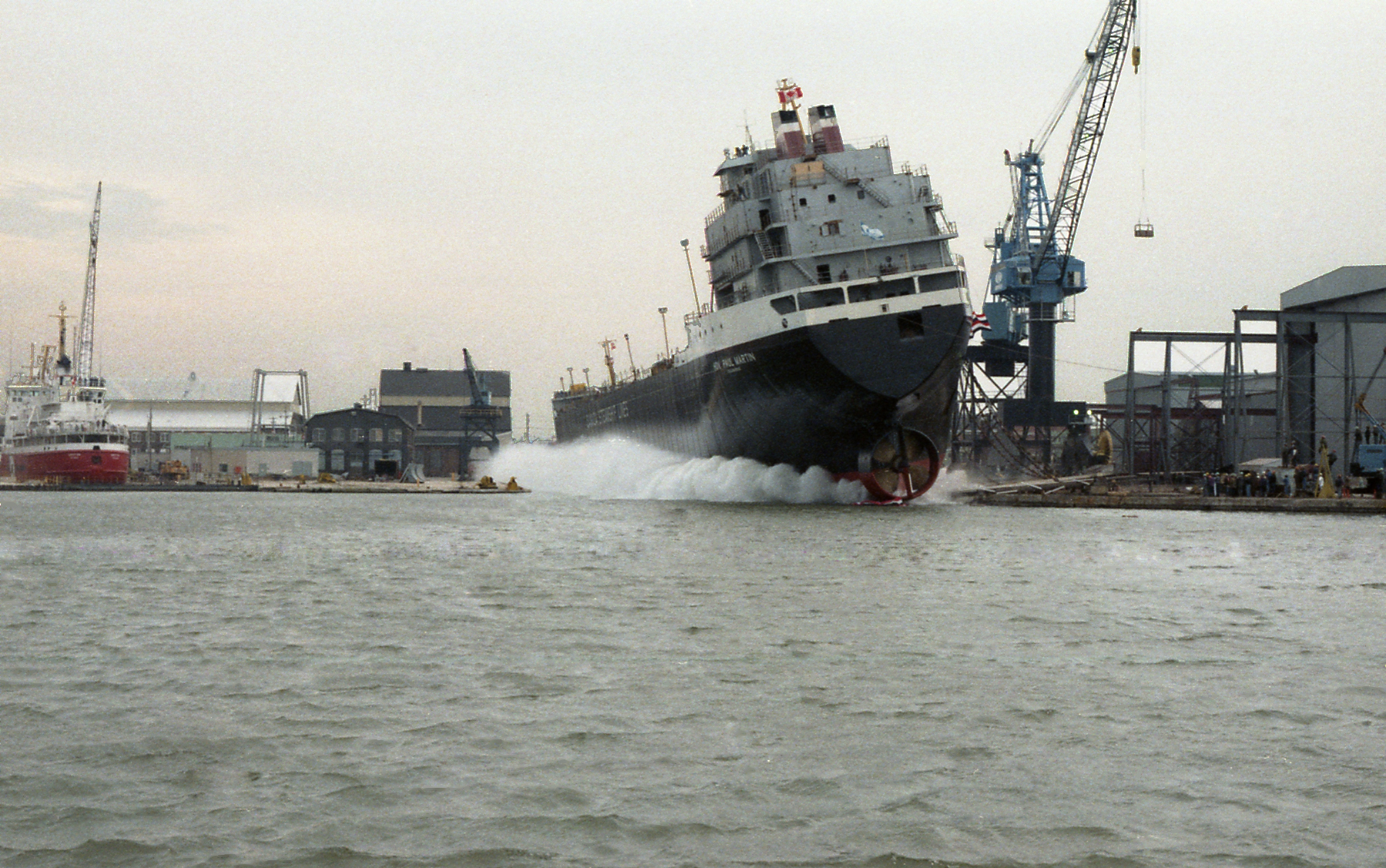 Collingwood Ship Launch November 1, 1984